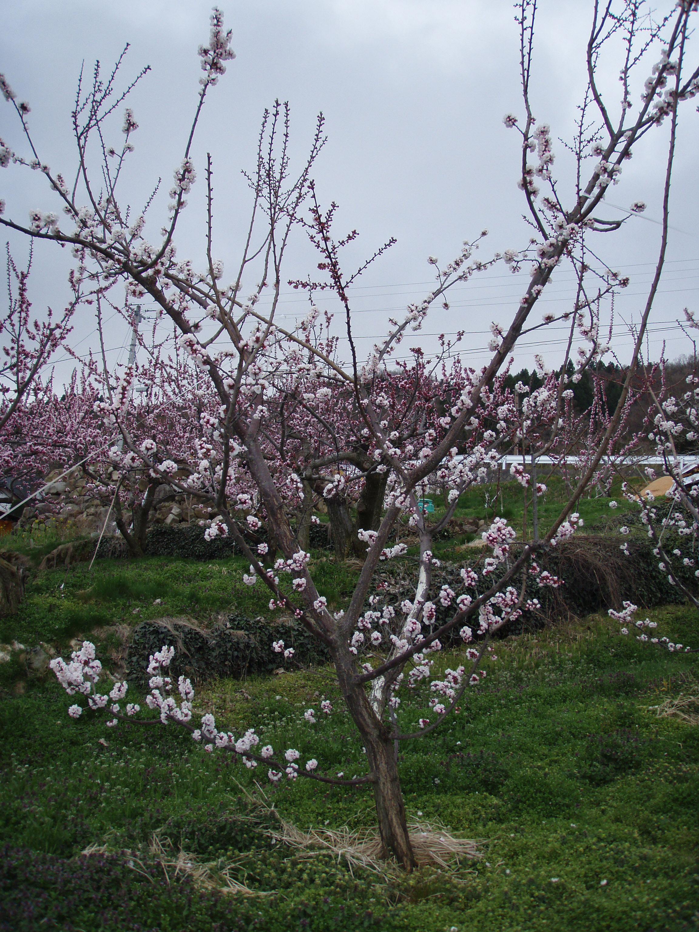 アンズの木、定植後7年。Apricot Trees (7 years later settled planting)